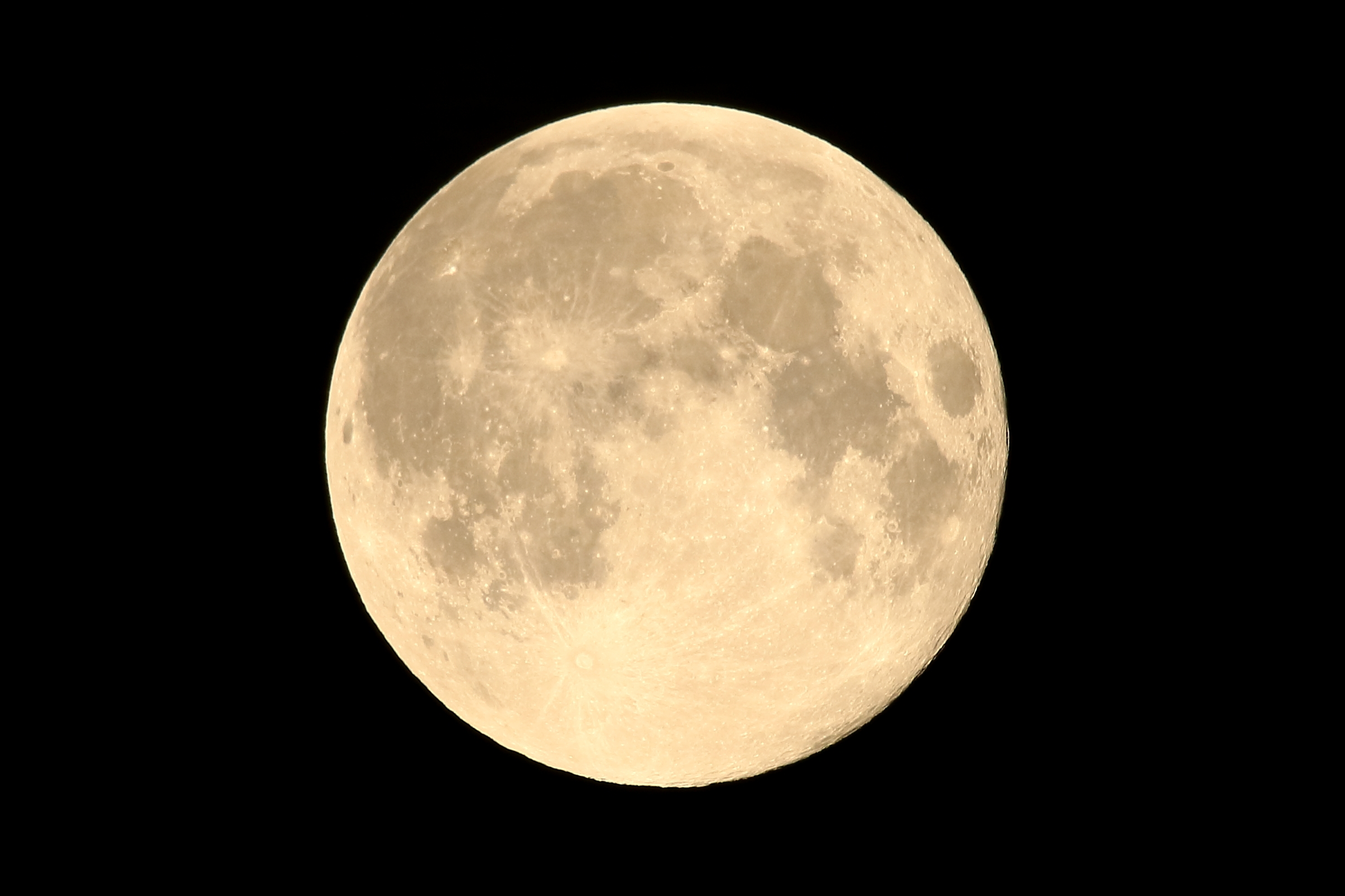 Full moon, so called "Strawberry moon" was taken in Tochigi prefecture, eastern Japan.